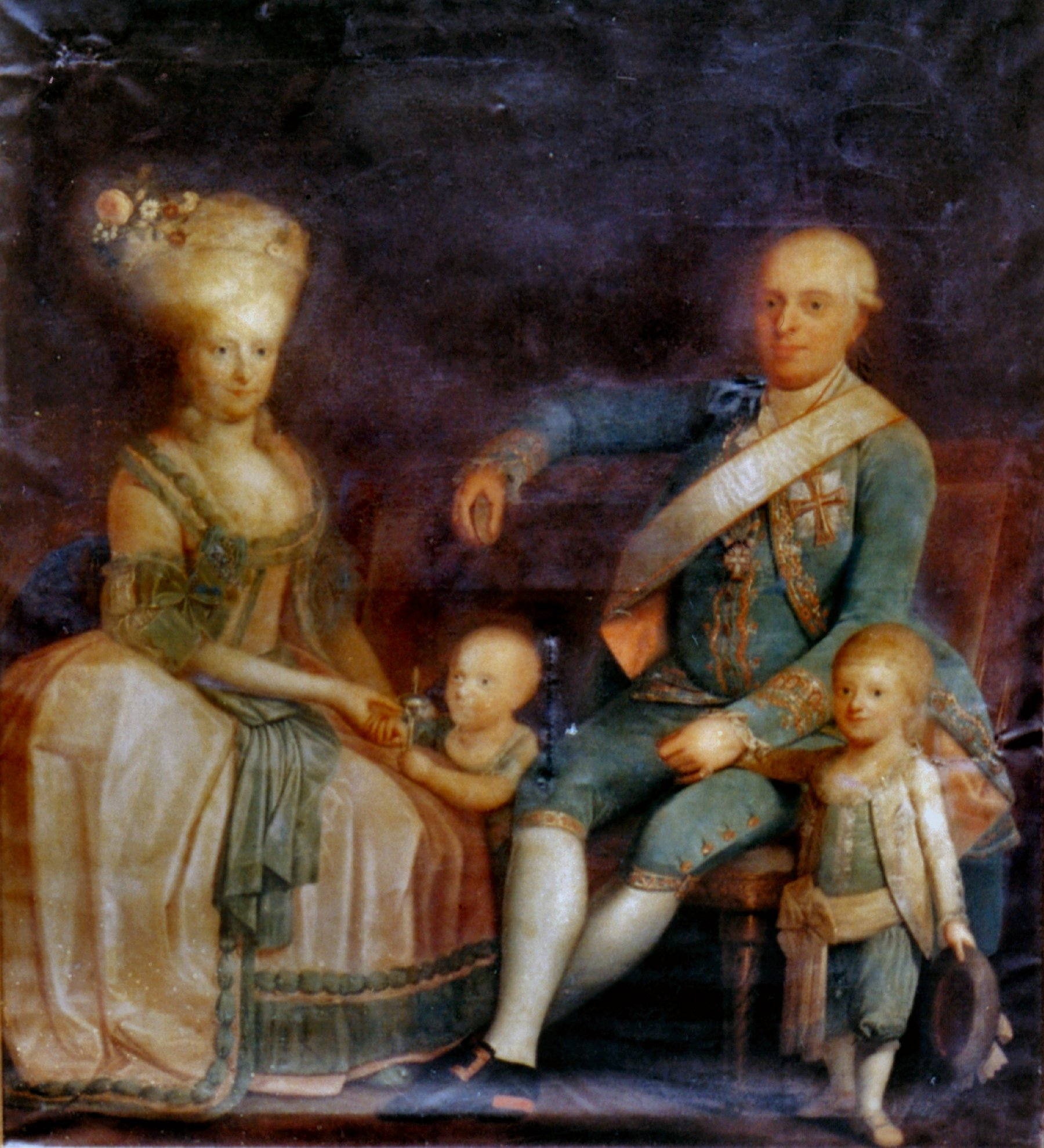 Family portrait of Engel Carl Ernst Schack (1750-1811) with his wife Mette Pauline Rosenørn (1754-1811), and their two children Christian Julius (1778-1829) and Friedrich Ferdinand